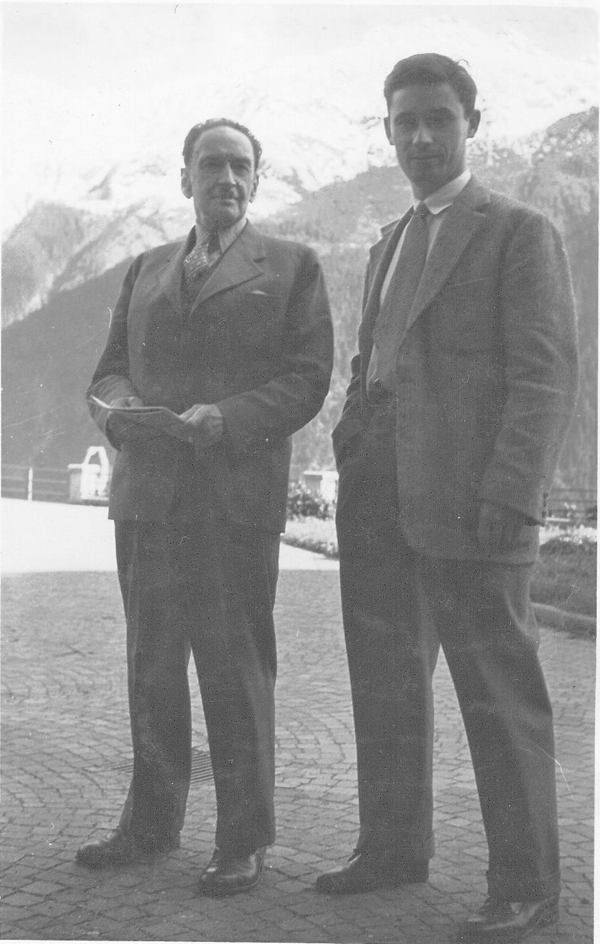 Taking advantage of a Congress in Italy, 1950, Hans von Euler travelled to Sondalo Villaggio Sanatoriale and met his collaborator Mario Bracco